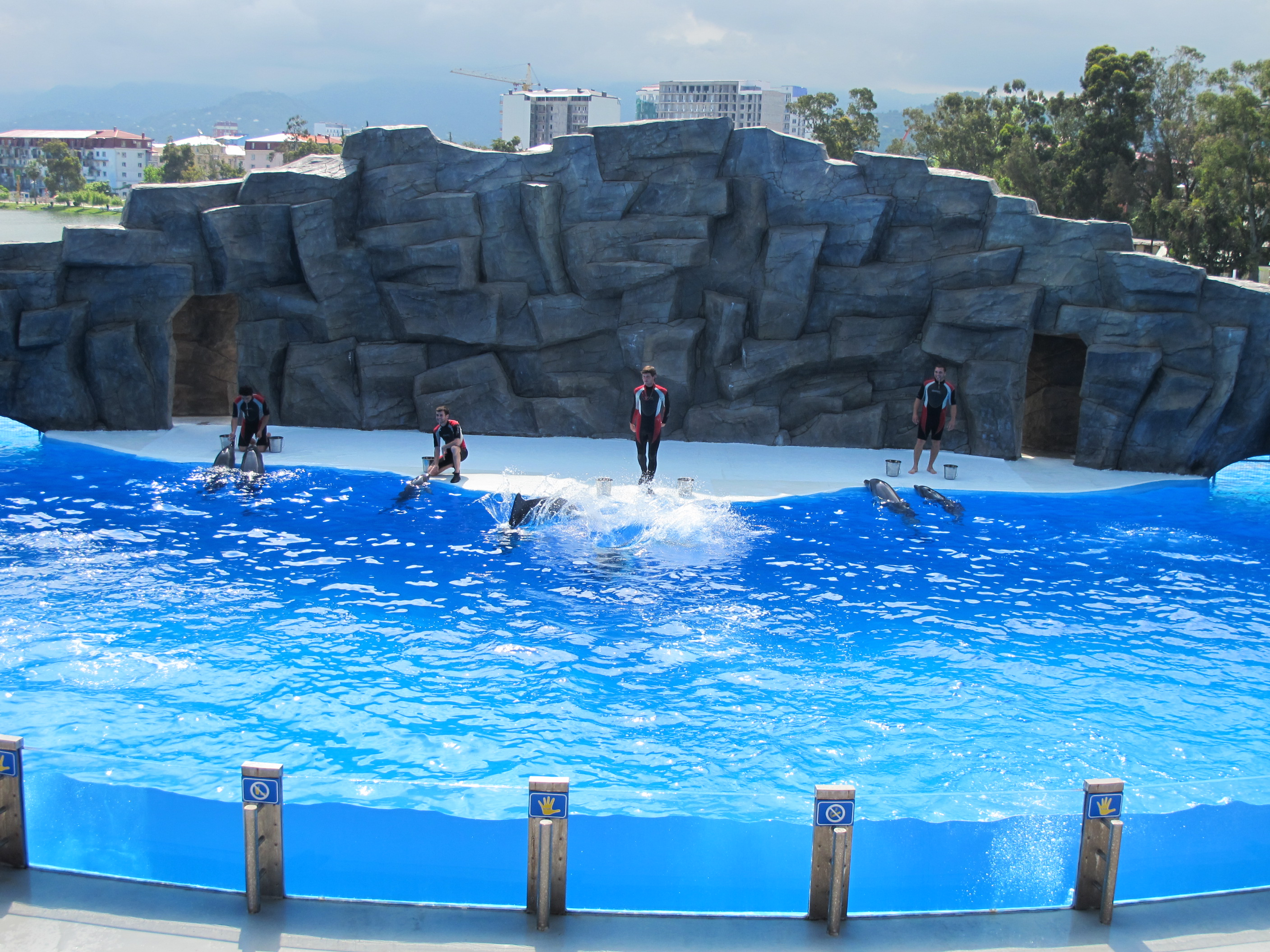 Show in Batumi dolphinarium